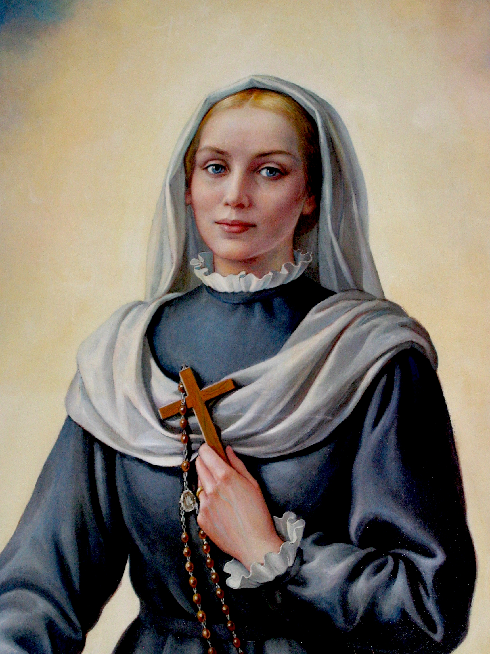 A picture of Saint Virginia Centurione Bracelli, a Genoa XVI century woman (particular).